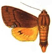 PLATE CCXIV.